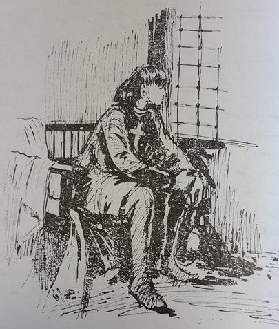 French king Louis IX of France imprisoned by Muslims at Dar Ibn Luqman.